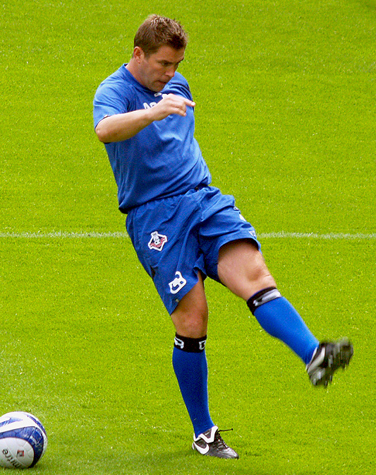 Oldham Athletic FC goalkeeping coach Andy Collett during the warm up at Gigg Lane, home of Bury Football Club prior to the Bury vs. Oldham Athletic friendly game. Saturday 18th July 2009